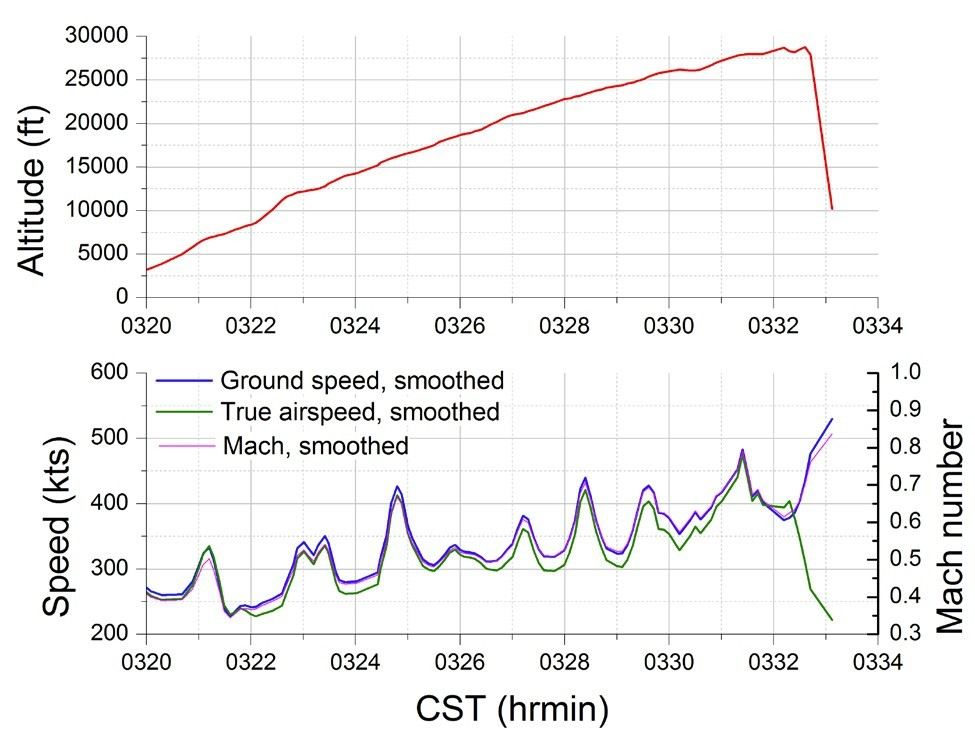 A Learjet 25 corporate jet crashed near Iturbide, Mexico while en route on a flight between Monterrey and Toluca Airport, Mexico.